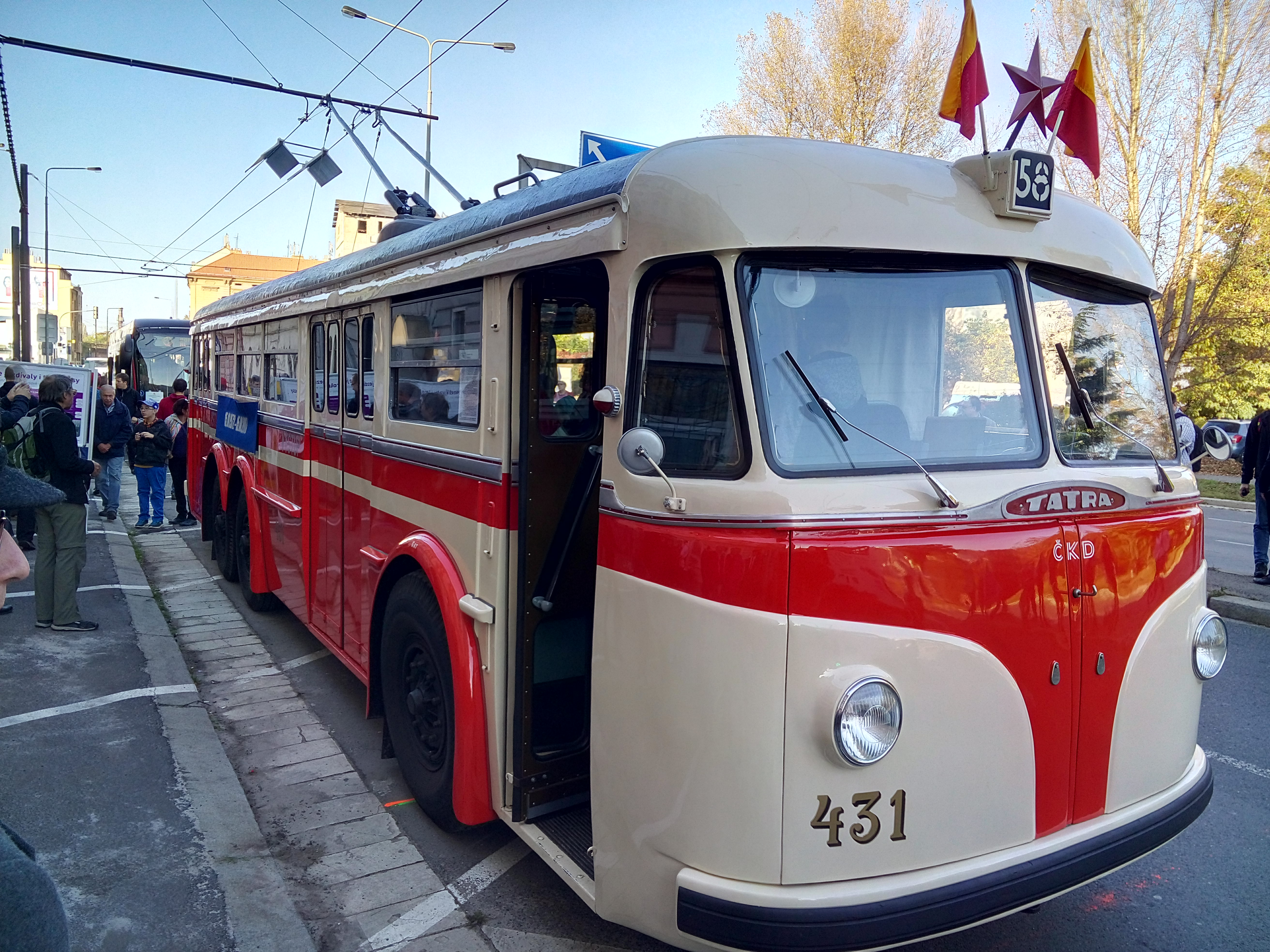 Fully functional historic trolleybus Tatra T400 waiting at the initial section of the Prague's trolleybus network in Prosecká street. It has been displayed on the occasion of a 45 year anniversary of the Prague's trolleybus system closure as well as the opening of a new Prague's trolleybus line.